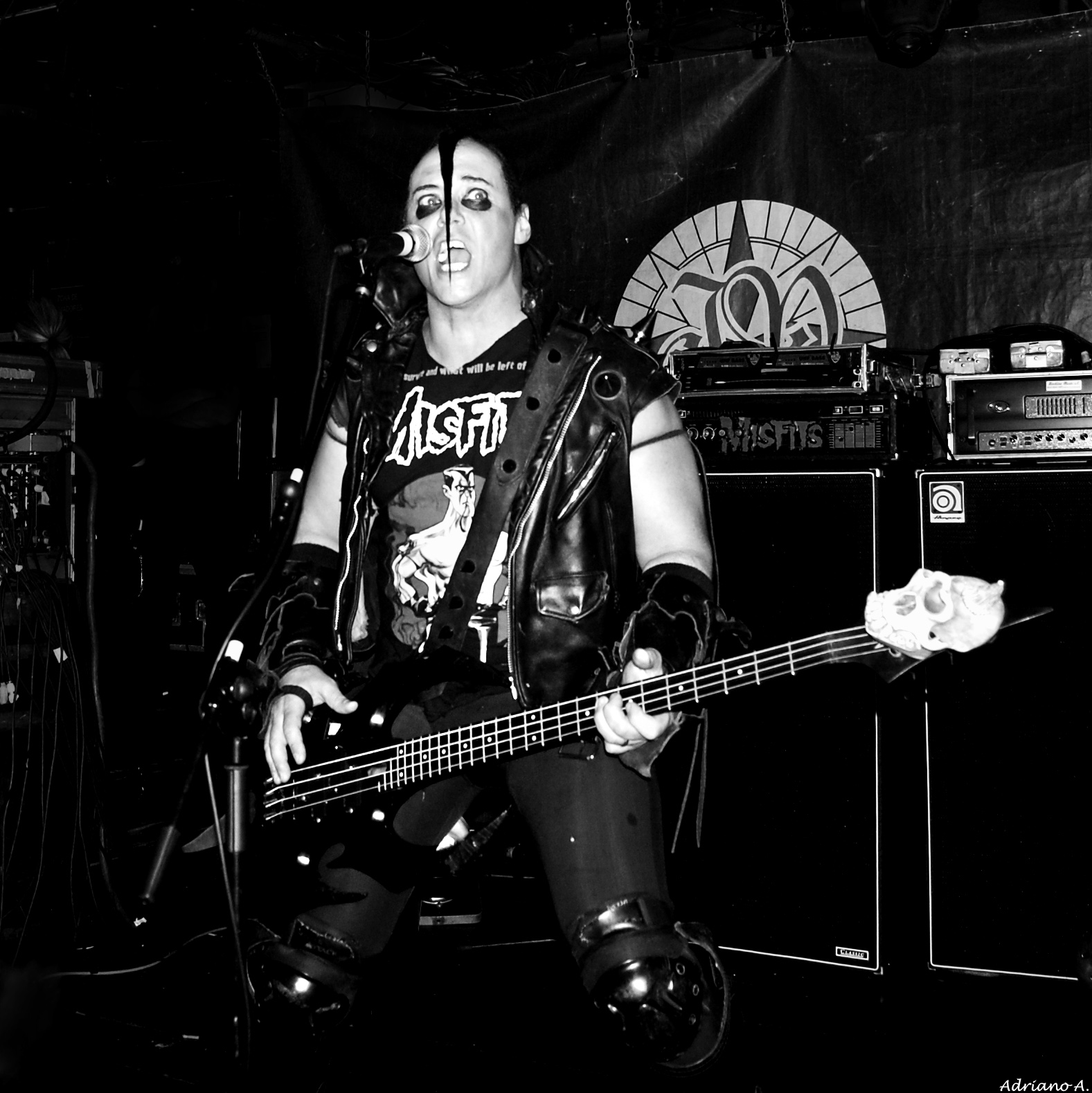 Jerry Only performing live with the Misfits, Sala Copernico, Madrid, April 23, 2008.